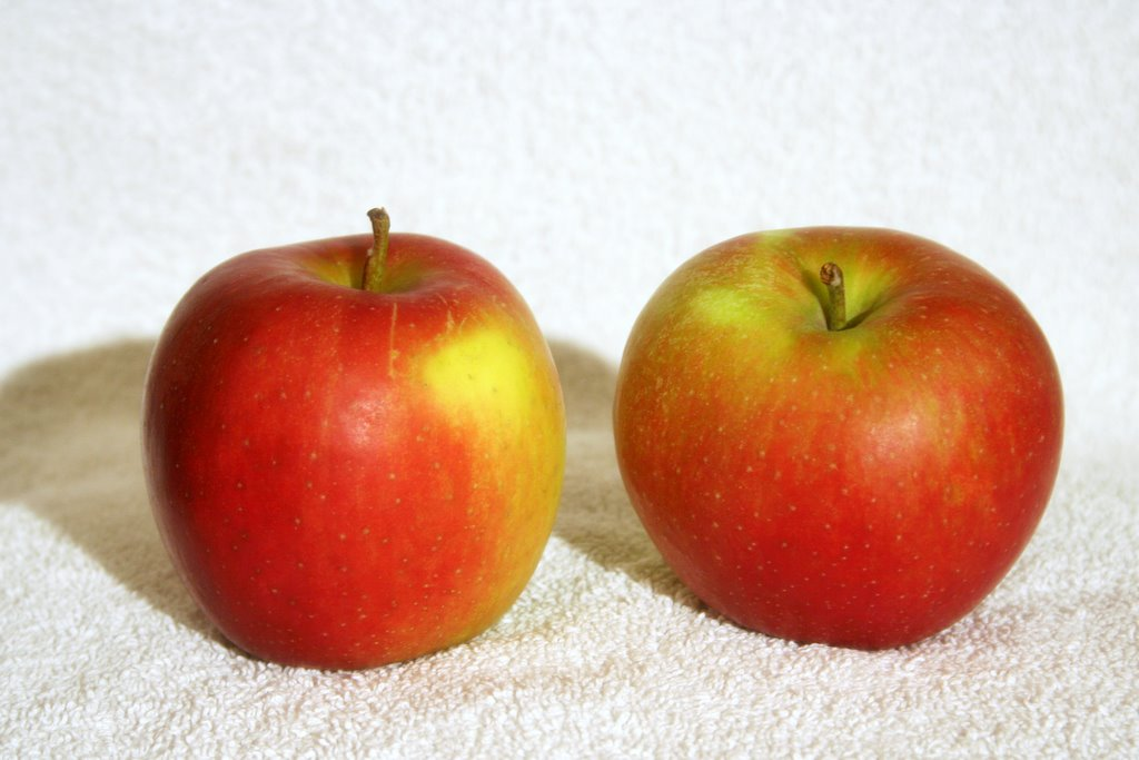 Jonagold apple - Pomme Jonagold